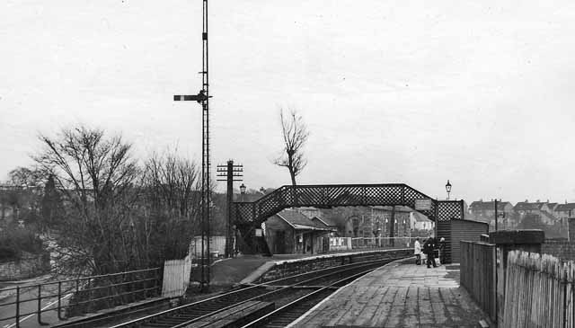 Busby Station. View southward, towards East Kilbride; ex-caledonian Glasgow (Central) - Pollokshaws - East Kilbride line, formerly (until 1914) extended to Hunthill Jct. and Hamilton.